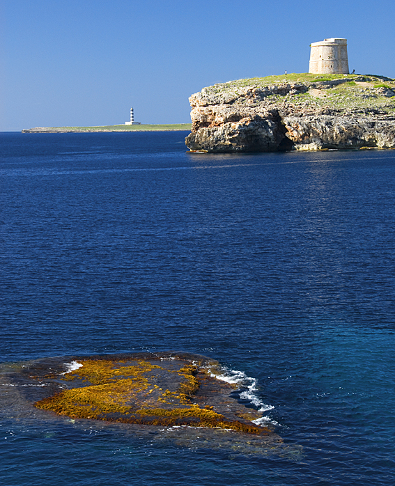 Alcaufar, Minorca.